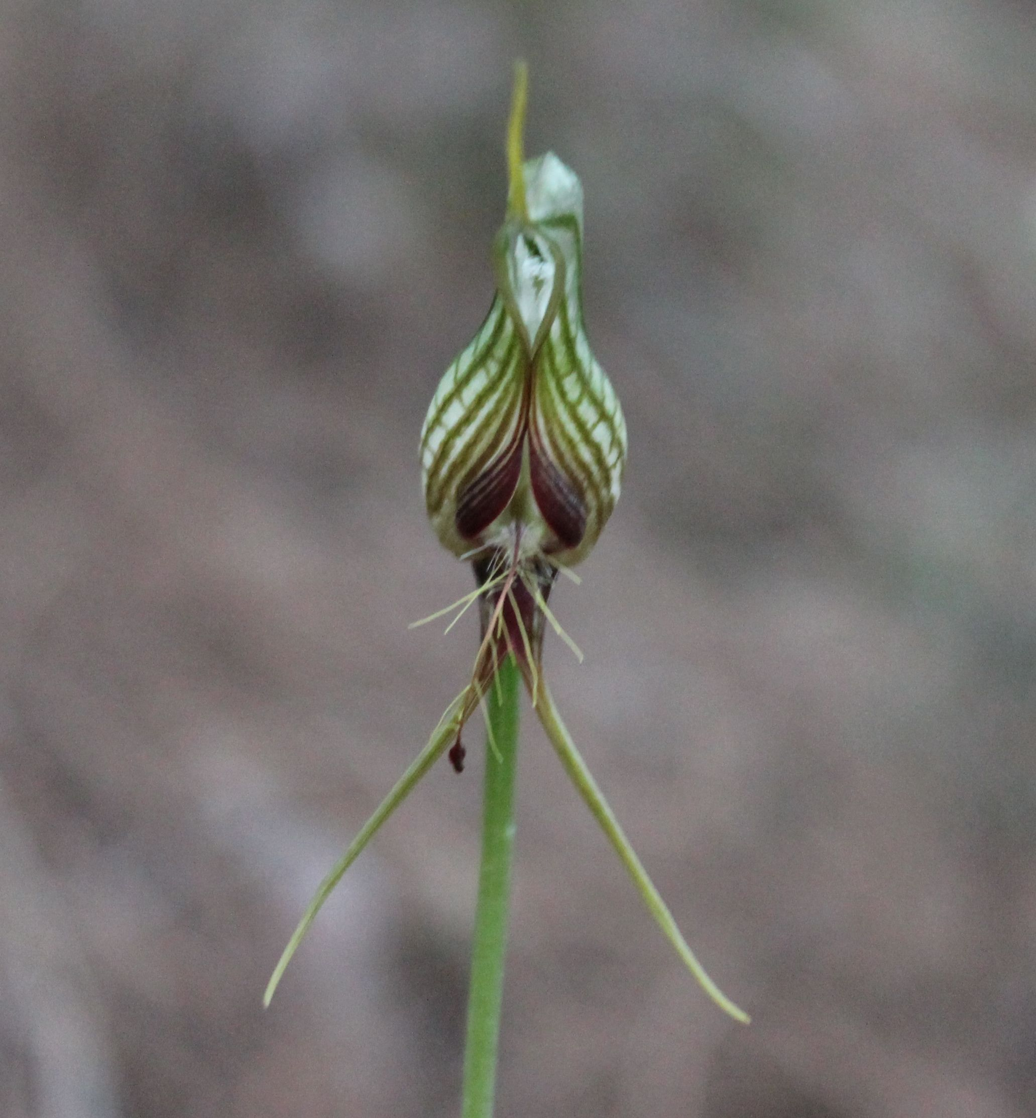 Pterostylis barbata